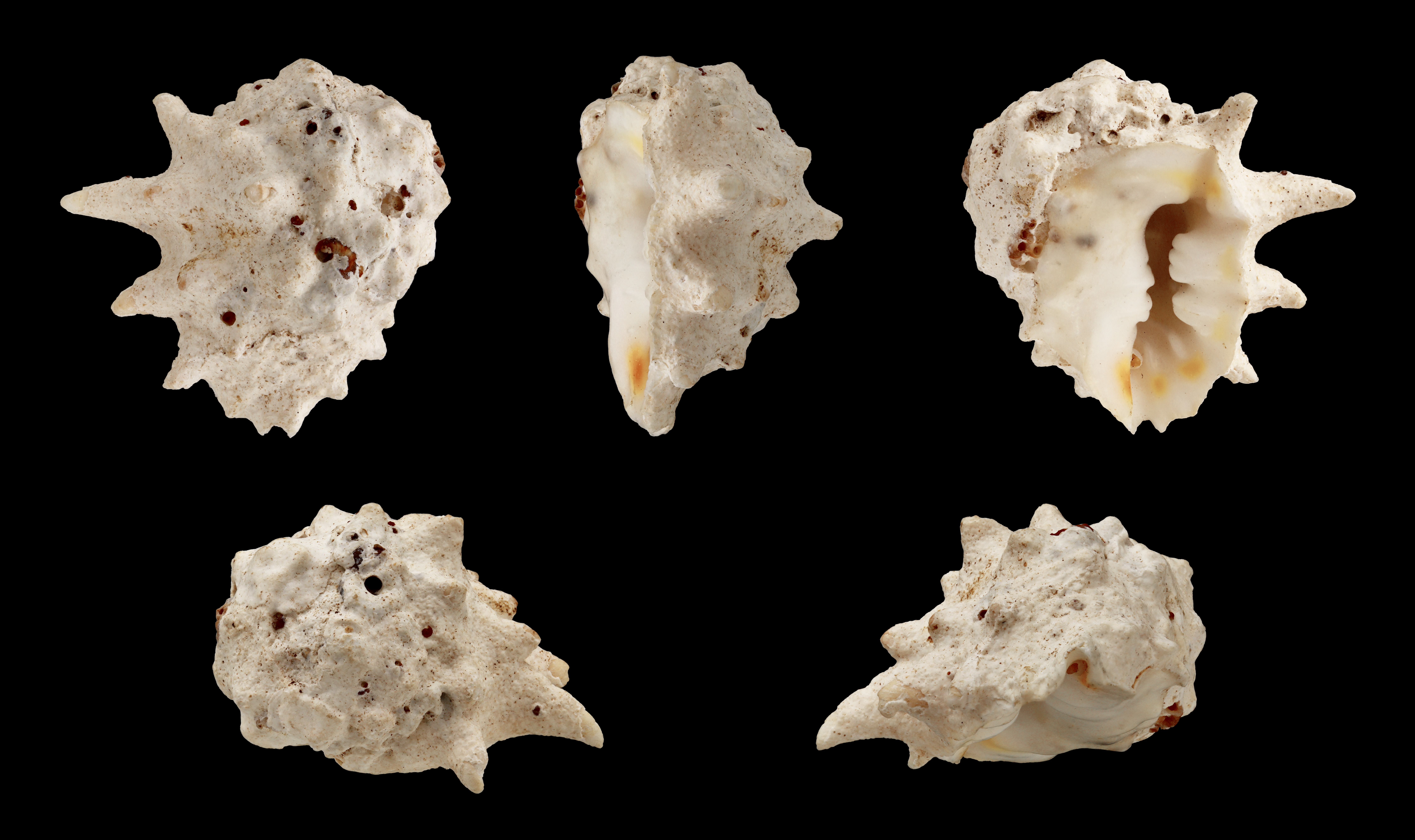 Prickly Pacific Drupe; Length 2.7 cm; Originating from Confifi, Beruwala, Sri Lanka; Shell of own collection, therefore not geocoded. Dorsal, lateral (right side), ventral, back, and front view.